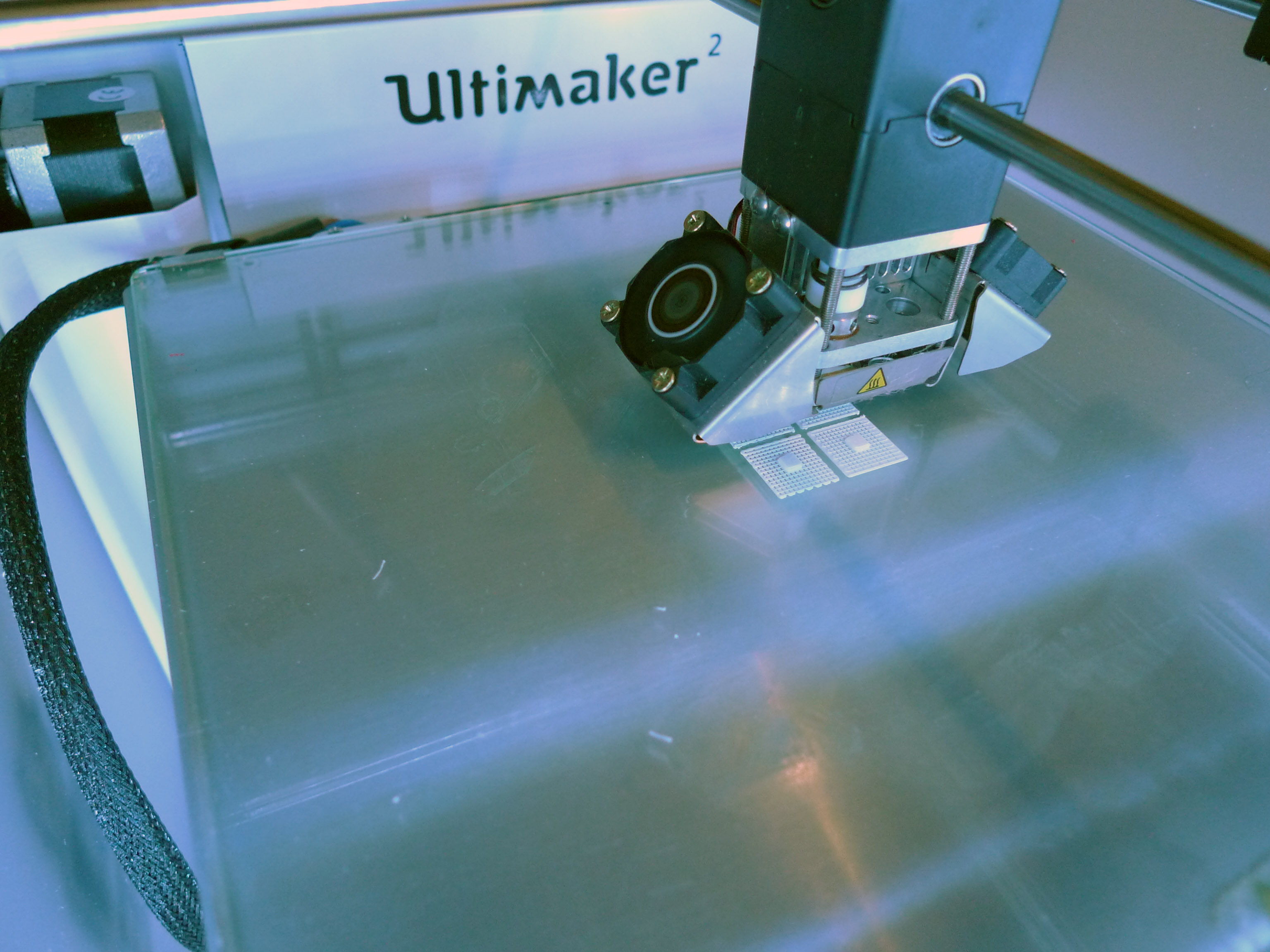 Ultimaker2 printing a 3D object.